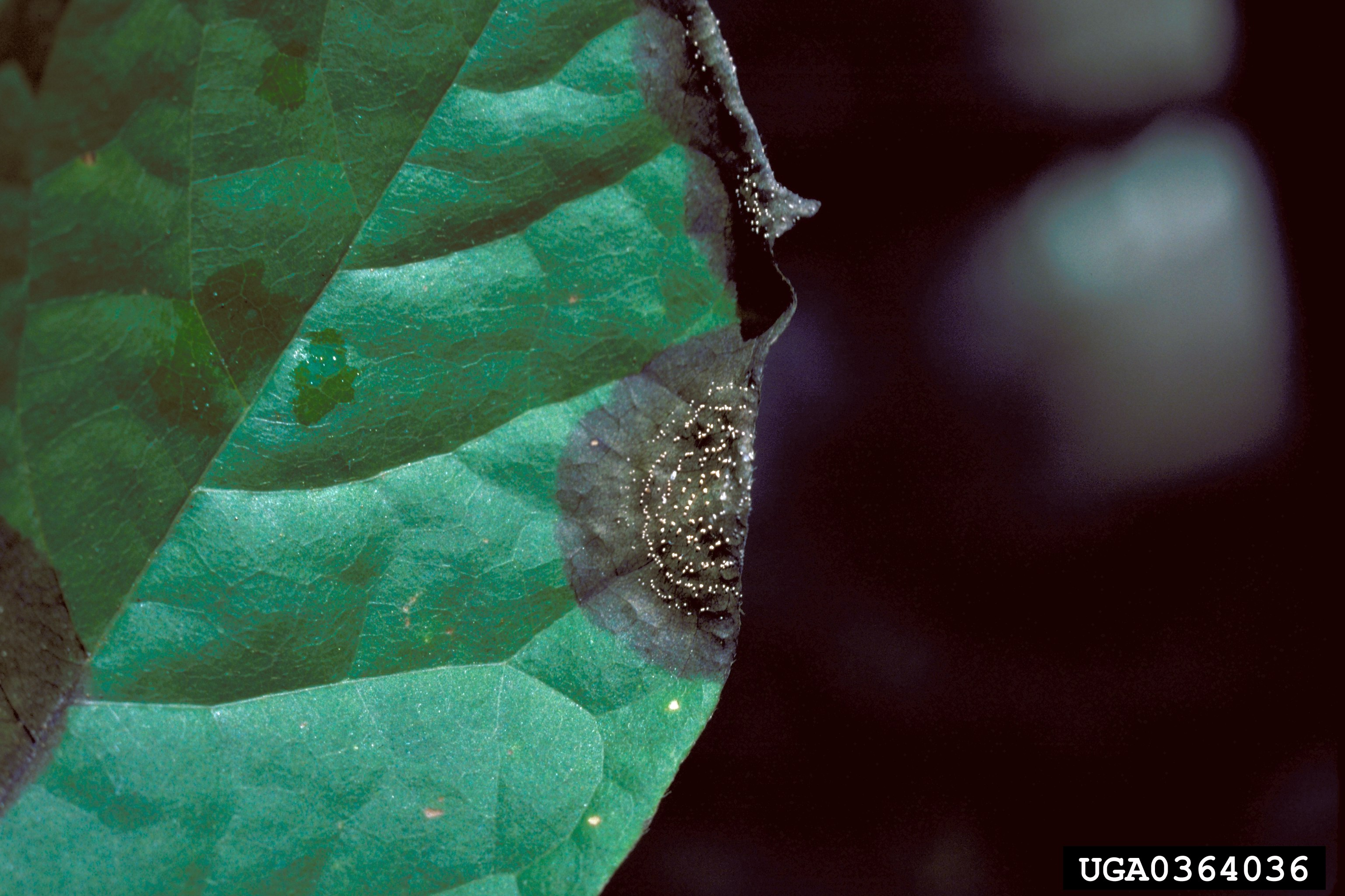 Colletotrichum acutatum leaf spot symptoms